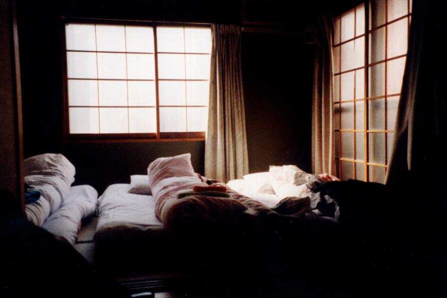 Traditional Japanese bedroom with futons on the floor and paper windows.